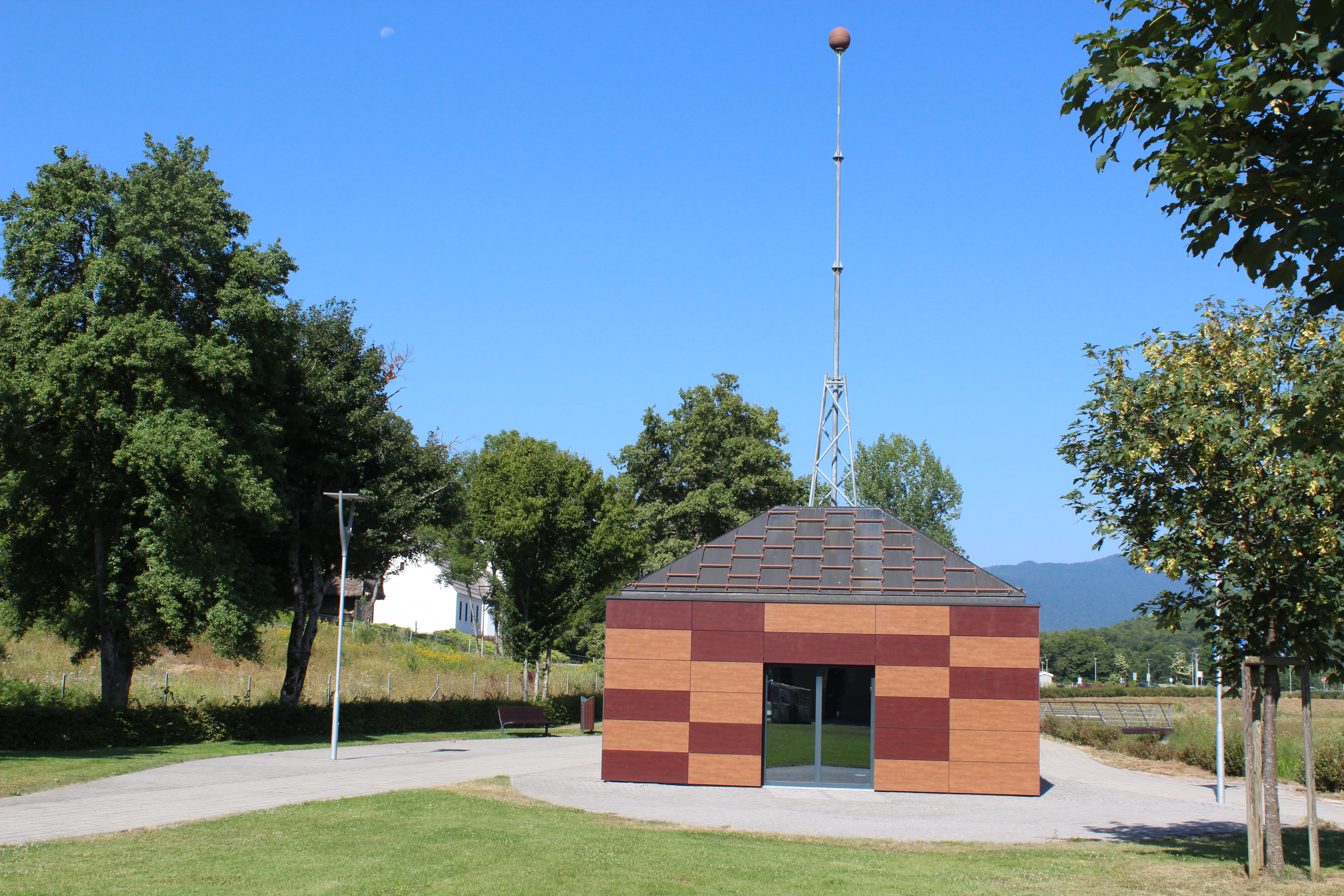 Tesla experimental station. A replica of the Colorado Springs station, operated between 1899-1900. This station is presented Tesla high-voltage and high-frequency experiments. (Nikola Tesla Memorial Center, Smiljan, Croatia).